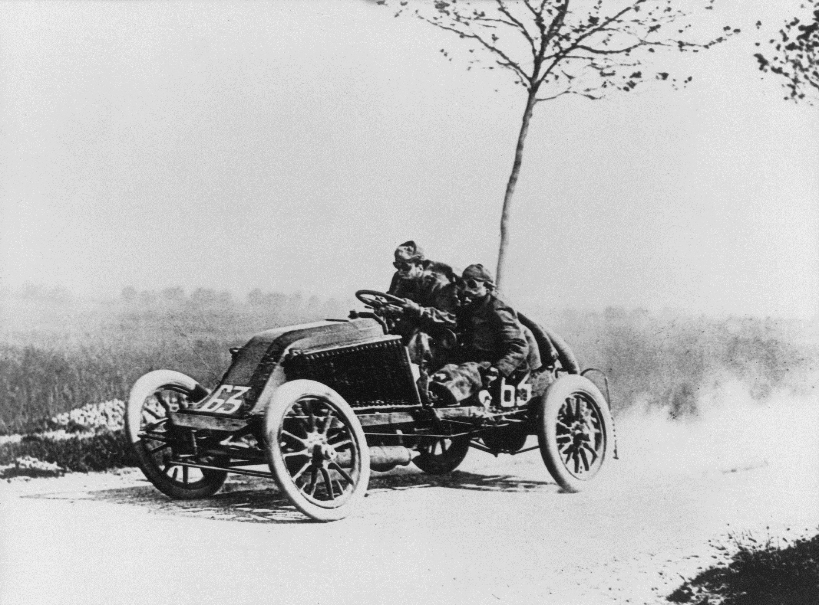 This picture was taken during the Paris-Madrid race in May 24th 1903 driven by Marcel Renault who eventually crashed the car and died later during the race. See article on French Wikipedia: Paris-Madrid race.